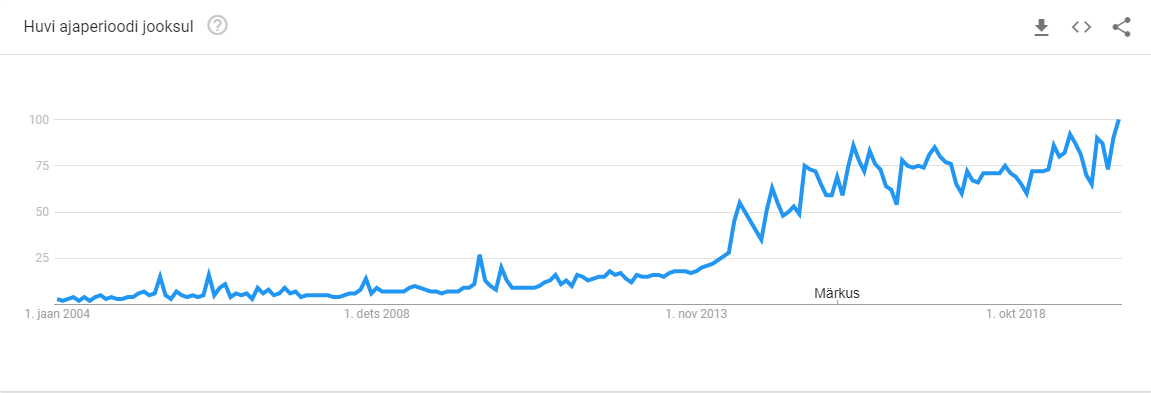 Statistika